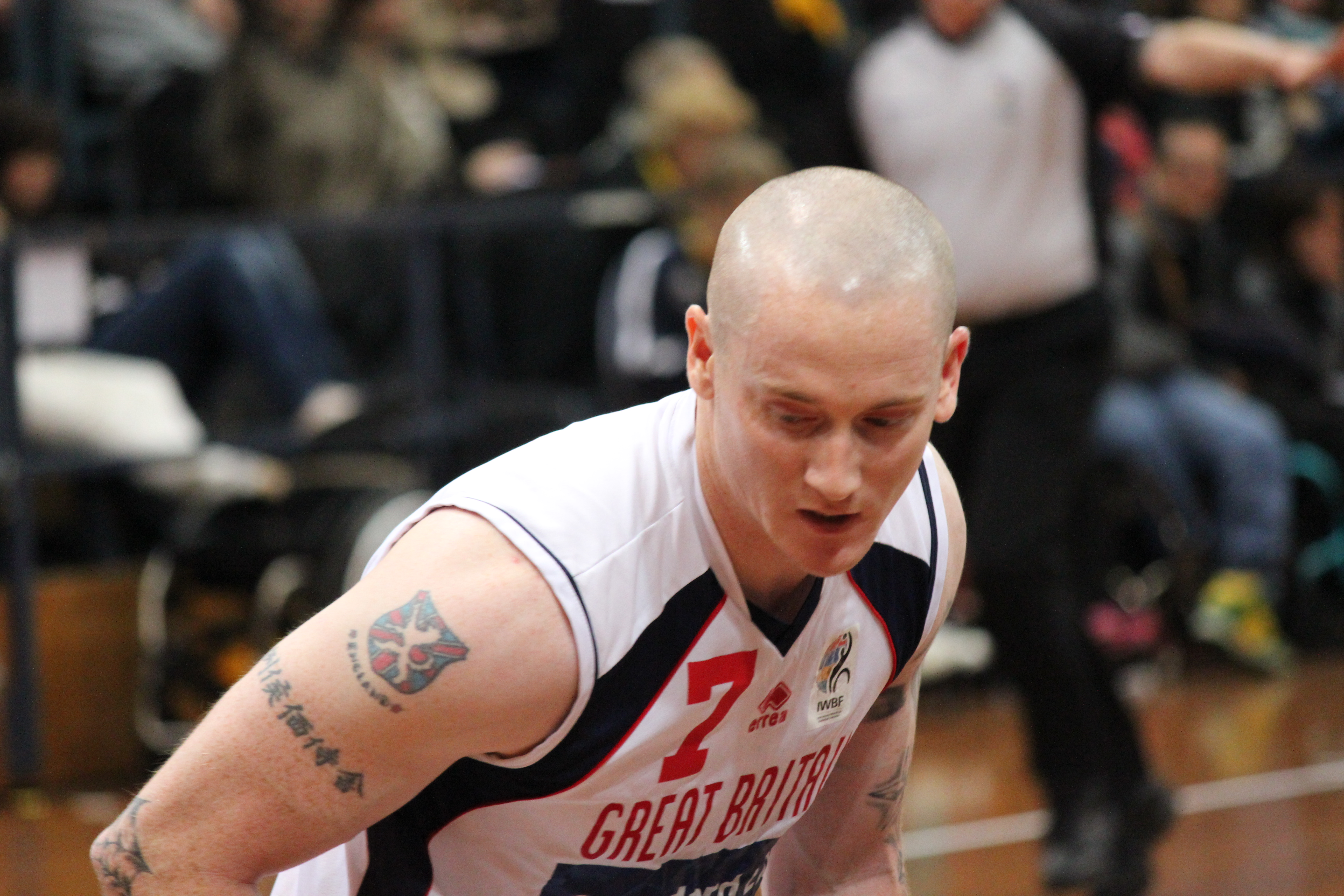 Great Britain vs Australia men's national wheelchair basketball team at Gliders & Rollers World Challenge on 21 July 2012. Terry Bywater.